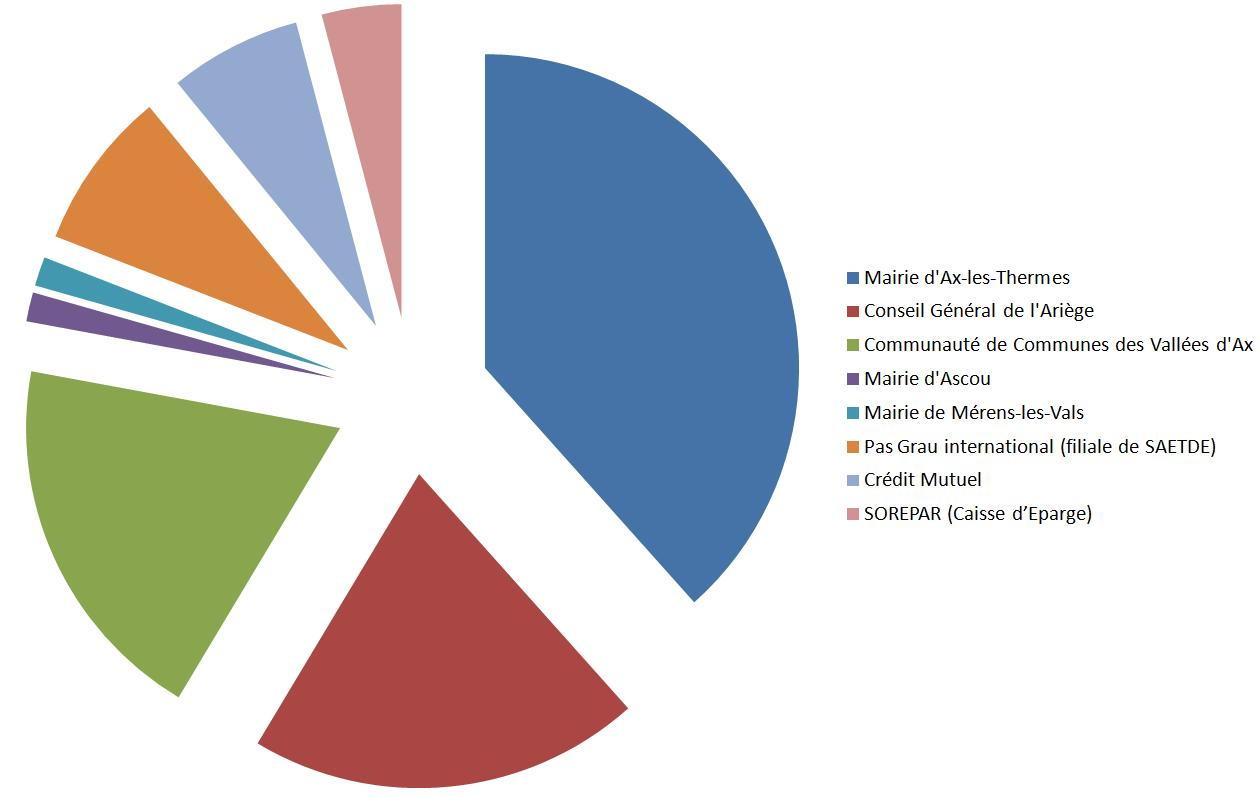 Ax 3 Domaines : structure SAVASEM